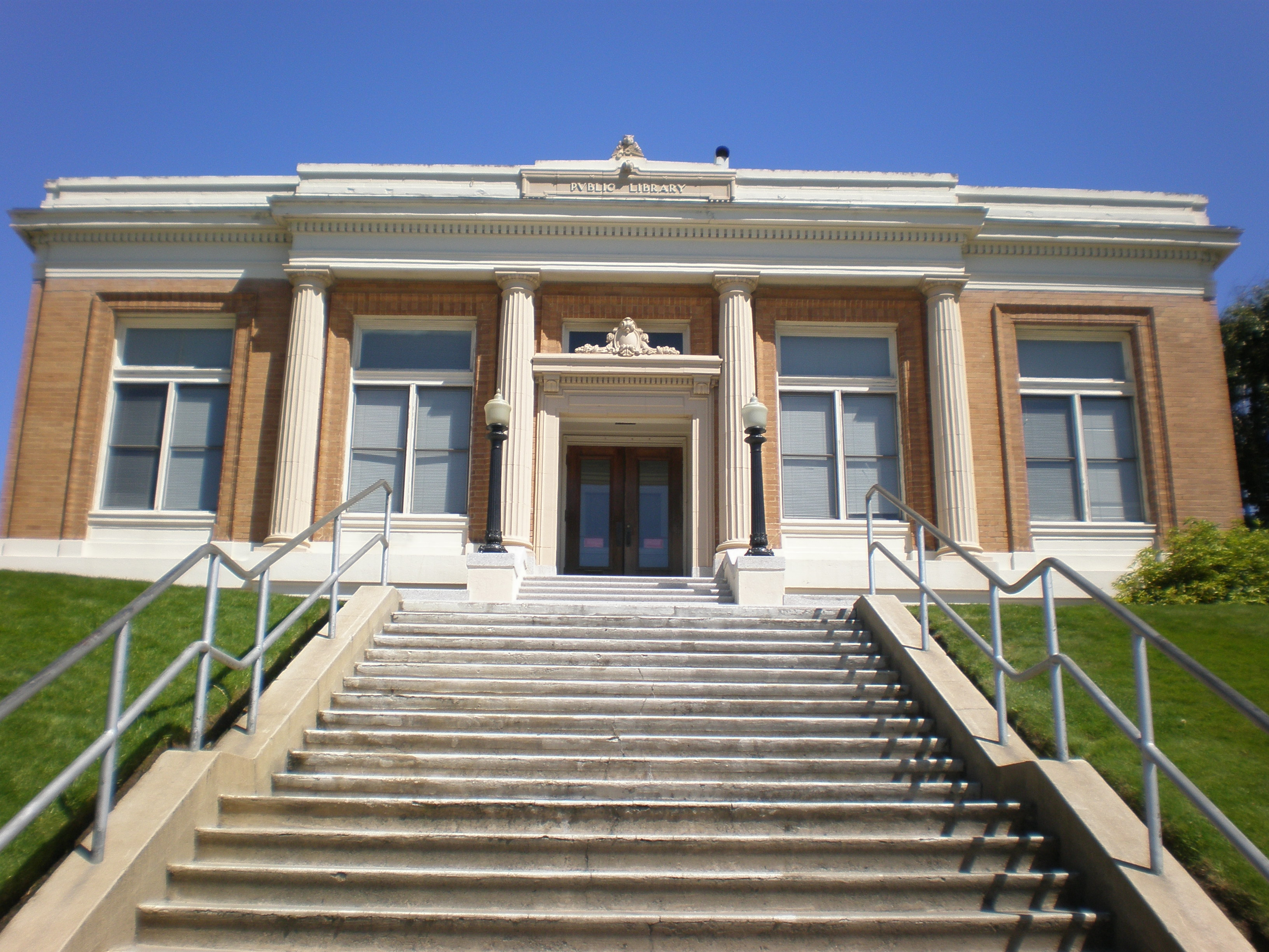 The Grand Avenue branch of the South San Francisco Public Library.